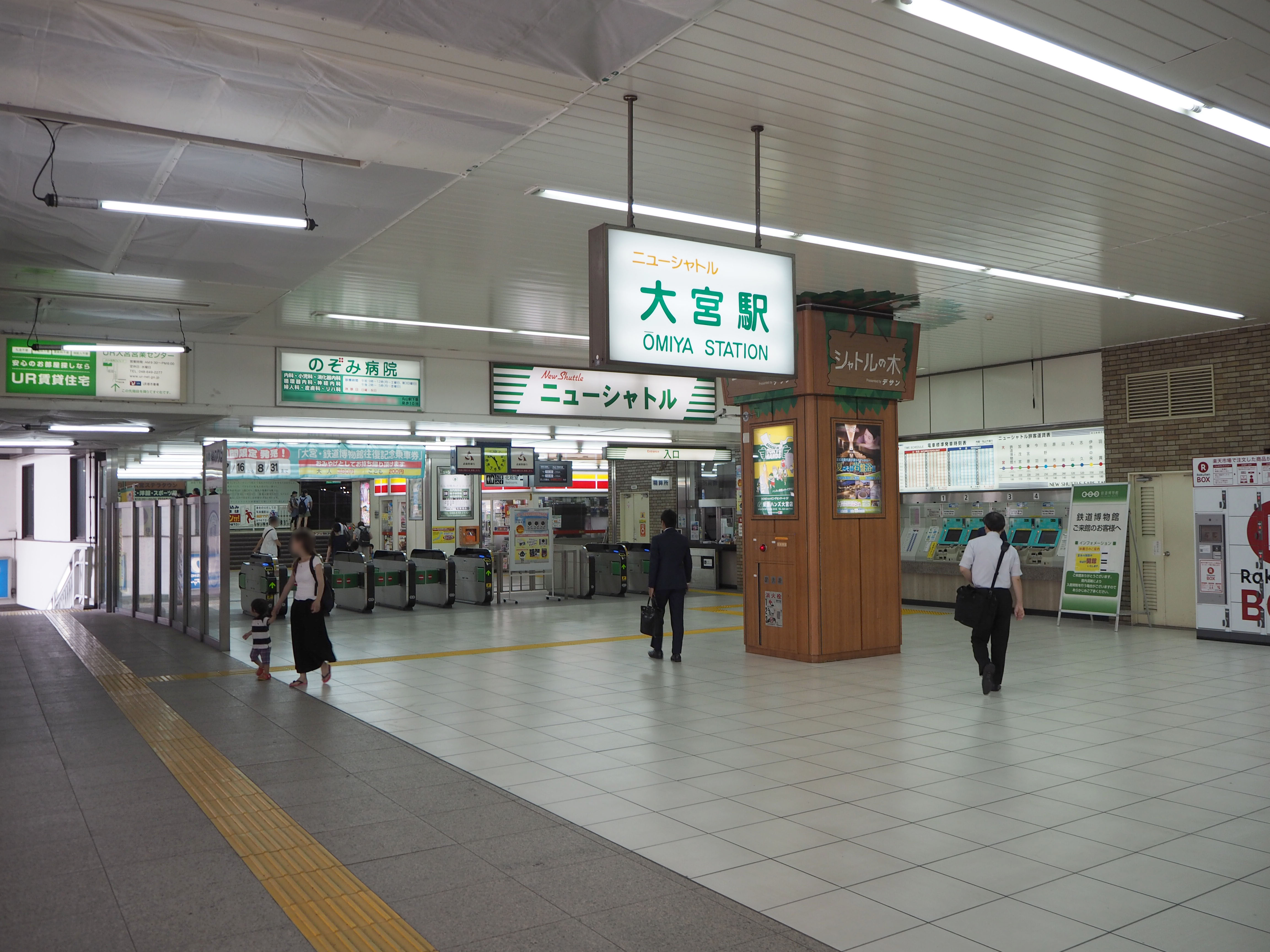 Ōmiya Station (Saitama)(New Shuttle)